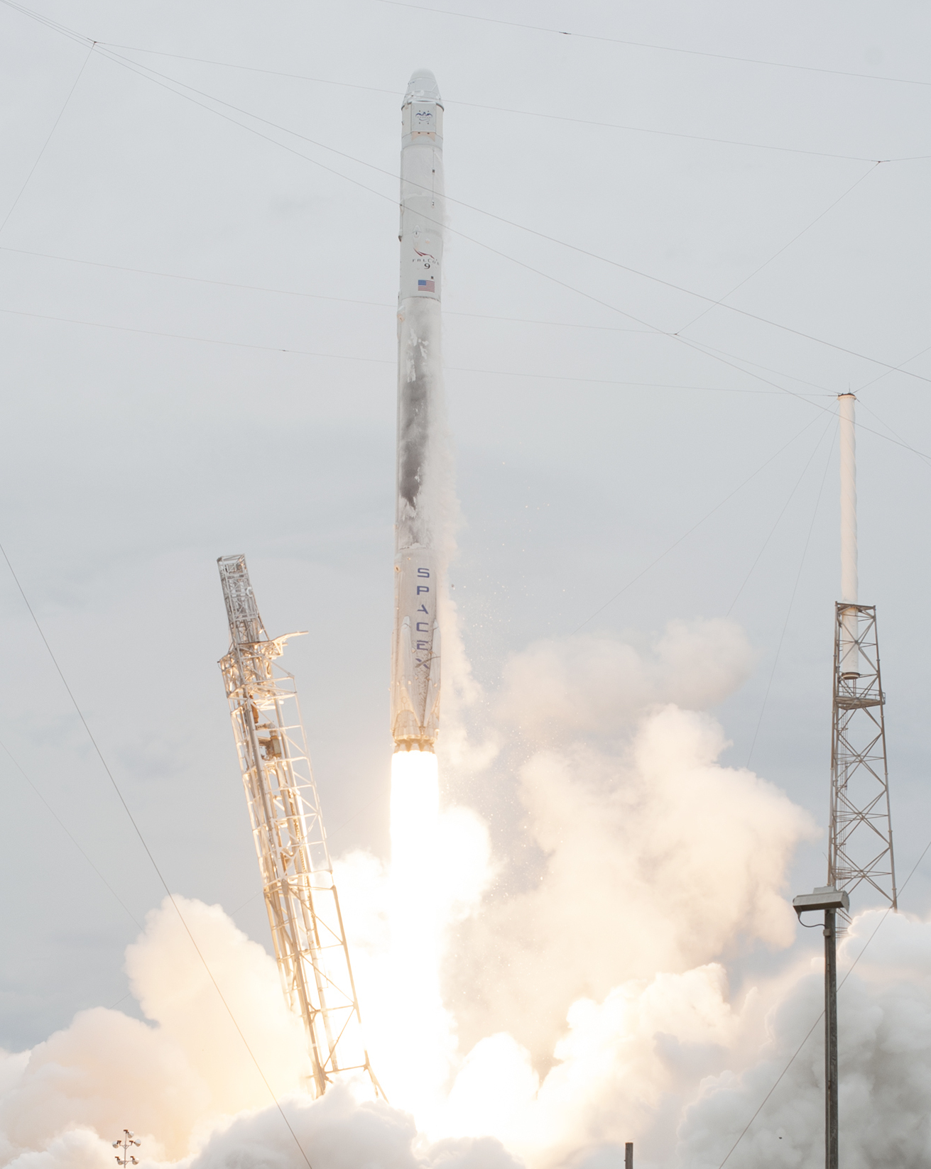 CAPE CANAVERAL, Fla. - The SpaceX Falcon 9 rocket rises above the lightning masts on Space Launch Complex 40 at Cape Canaveral Air Force Station, as the SpaceX-3 mission begins, carrying the Dragon resupply spacecraft to the International Space Station. Liftoff was during an instantaneous window at 3:25 p.m. EDT. Dragon is making its fourth trip to the space station. The SpaceX-3 mission, carrying almost 2.5 tons of supplies, technology and science experiments, is the third of 12 flights through a $1.6 billion NASA Commercial Resupply Services contract. Dragon's cargo will support more than 150 experiments that will be conducted during the station's Expeditions 39 and 40. PHOTO NO: KSC-2014-2176